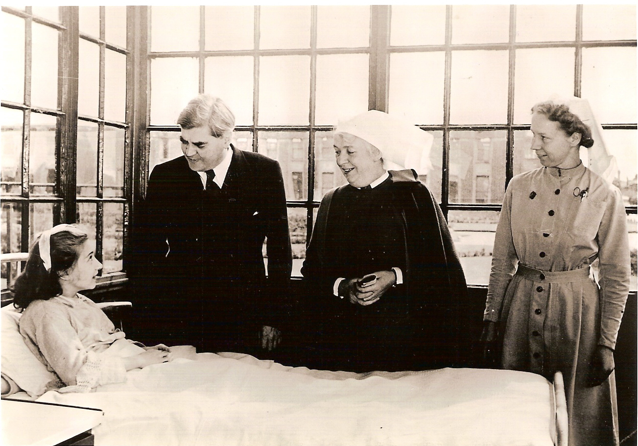 Anenurin Bevan, Minister of Health, on the first day of the National Health Service, 5 July 1948 at Park Hospital, Davyhulme, near Manchester Template:University of Liverpool Faculty of Health & Life Sciences